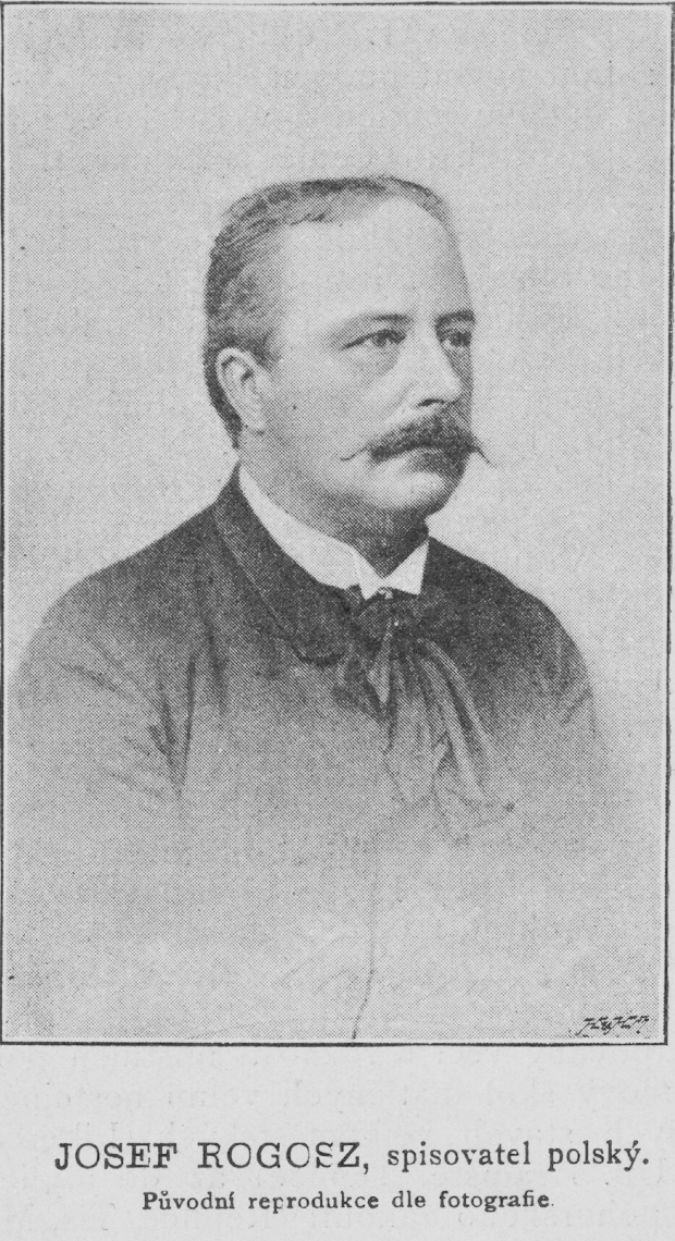 Portrait of Józef Rogosz (1844 - 1896), Polish writer.